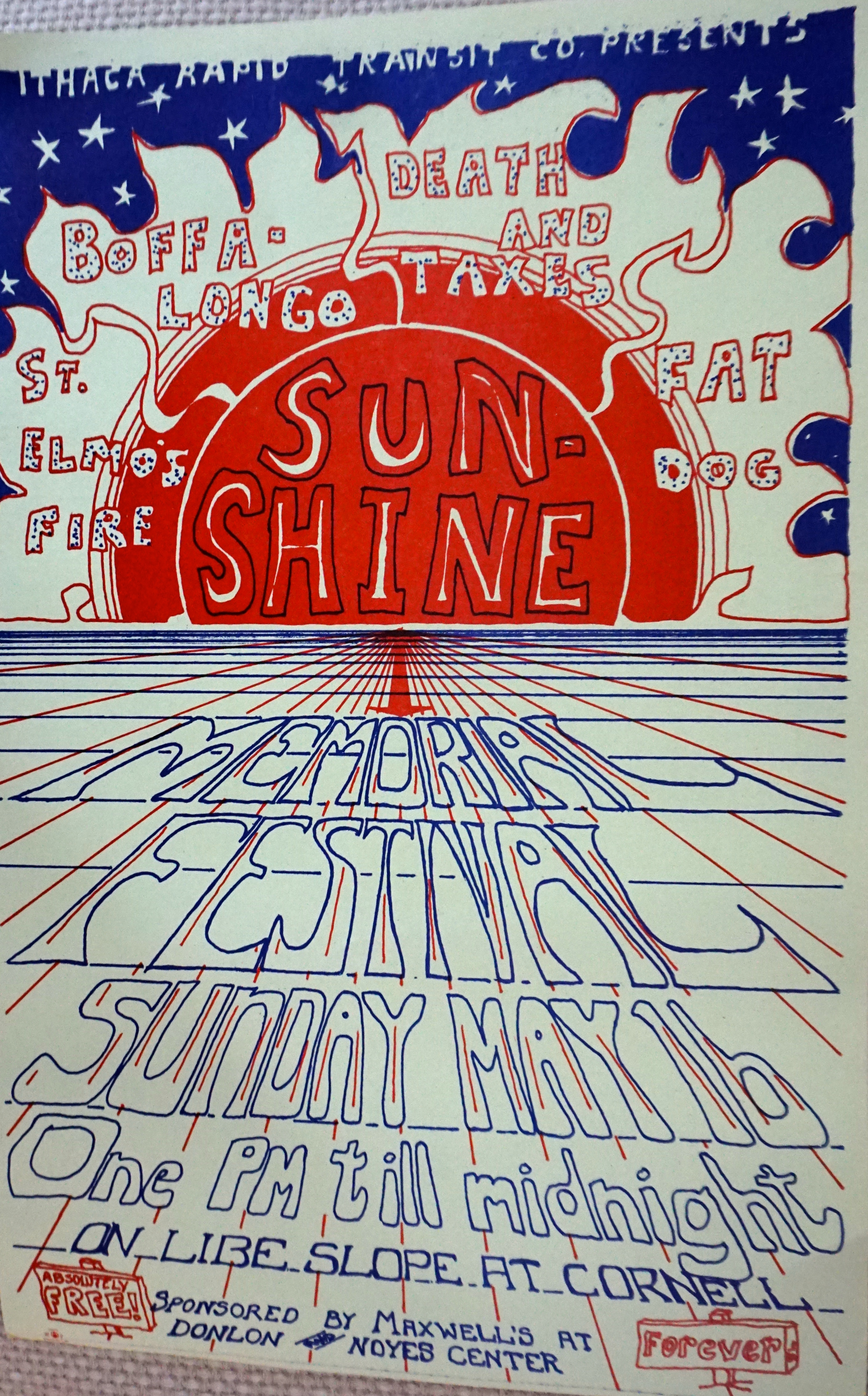 Sunshine Memorial Festival, Live Slope, May 16, 1971